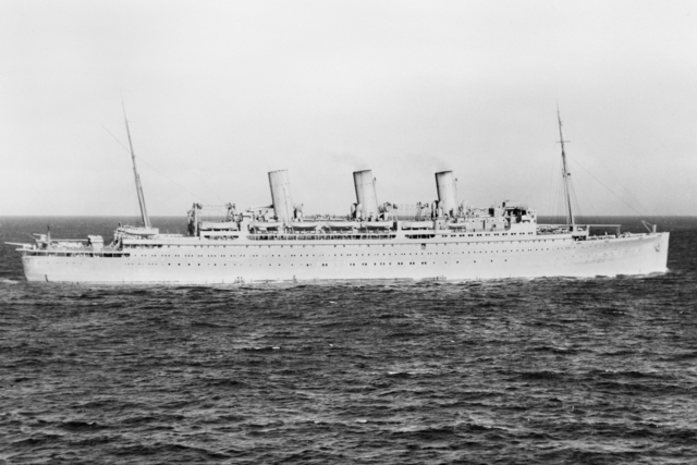 AWM caption:1941. Starboard side view of the British transport SS "Empress of Canada" which carried New Zealand troops to the Middle East as part of Convoy US-1 in 1940-1941; and this ship carried Australian troops to the United Kingdom as part of Convoy US-3 in 1940-1945. NOTE the defensive arrmament consisting of a 6-inch gun right aft with a 3-inch AA gun sited above it. (Naval Historical Collection)